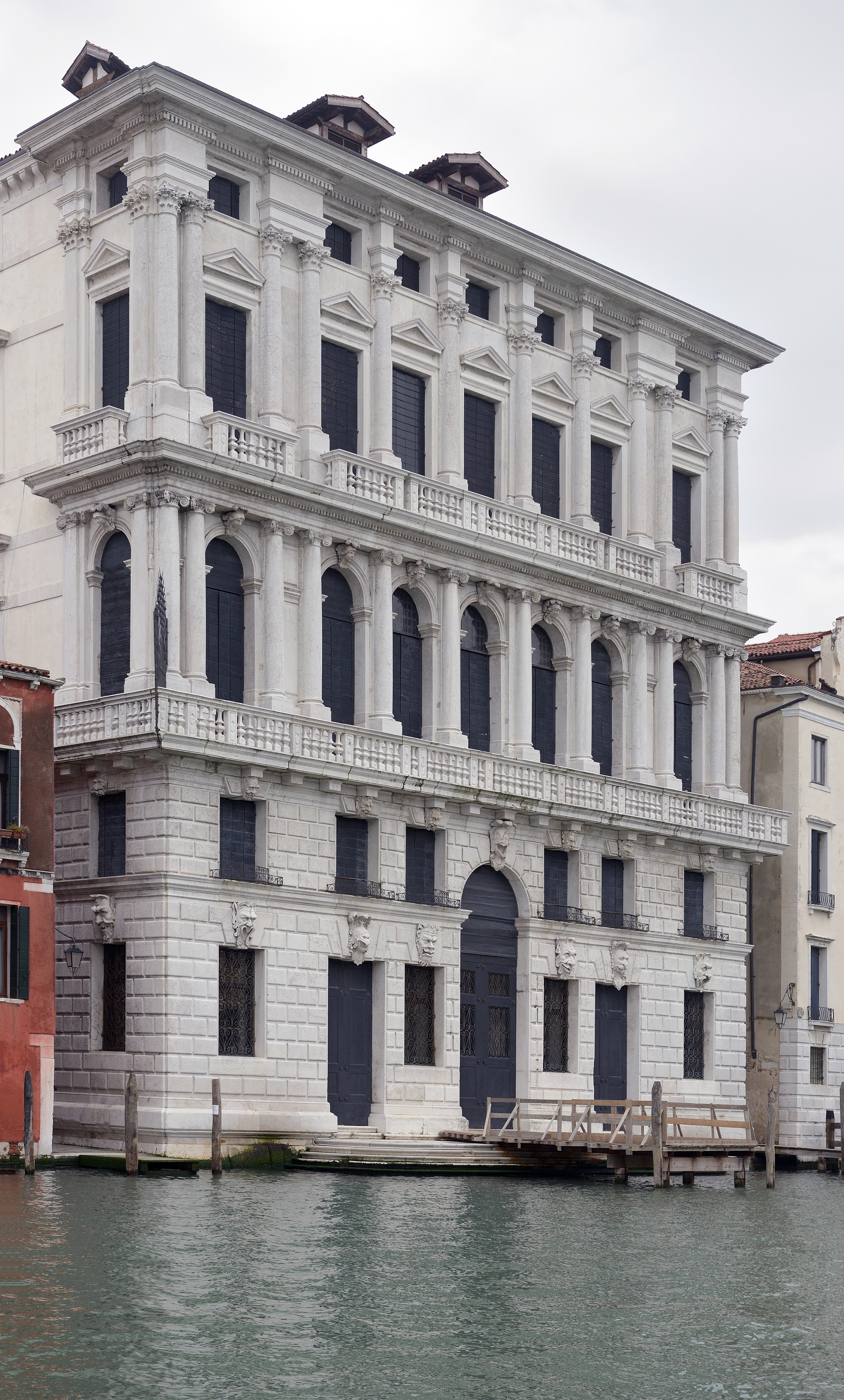 Palazzo Ca' Corner della Regina on the Canal Grande in Venice - By architect Domenico Rossi